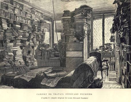 Study of Édouard Fournier